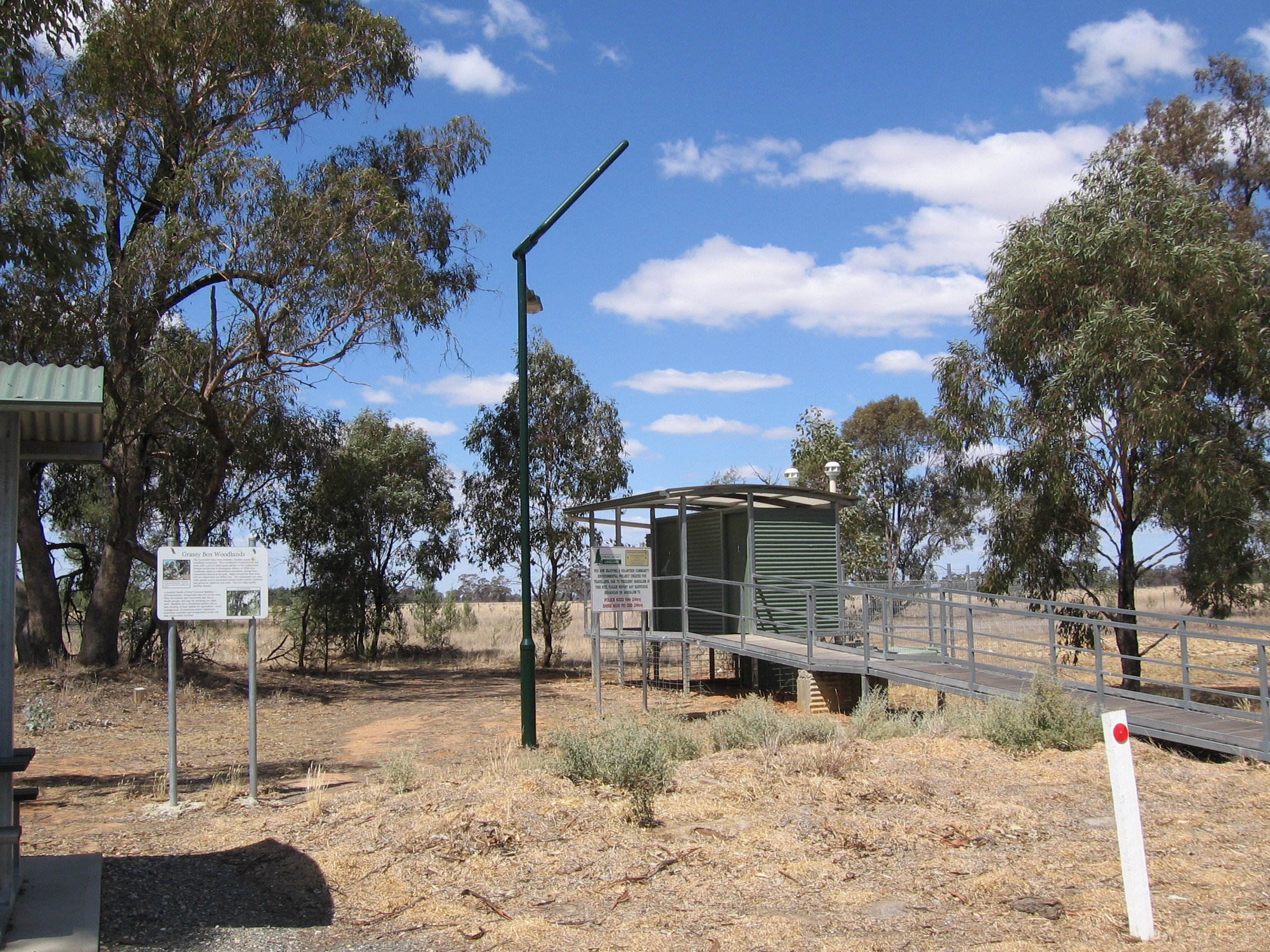 Roadside rest area at Lowesdale, New South Wales